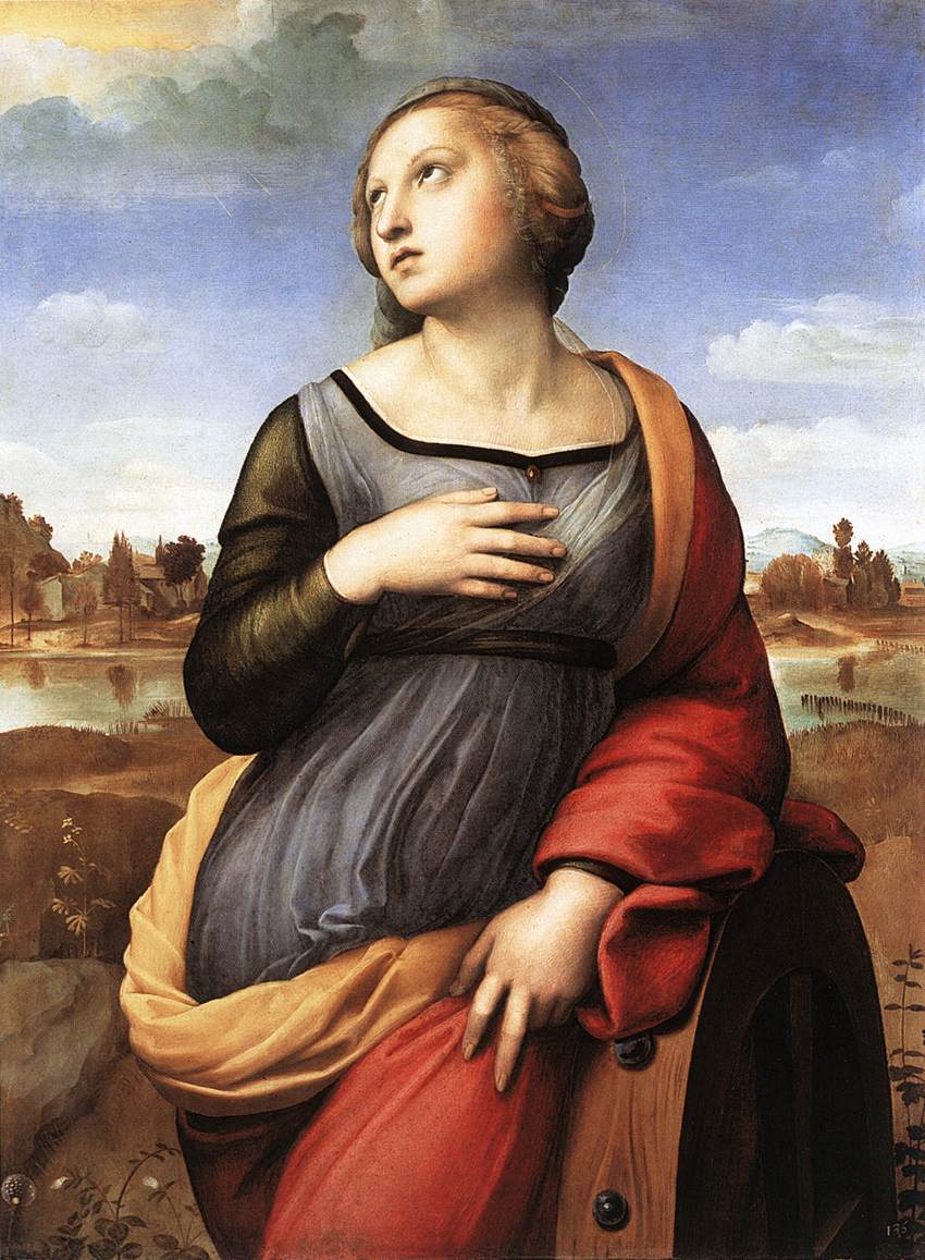 This painting was painted by Raphael using a very contrapposto pose.